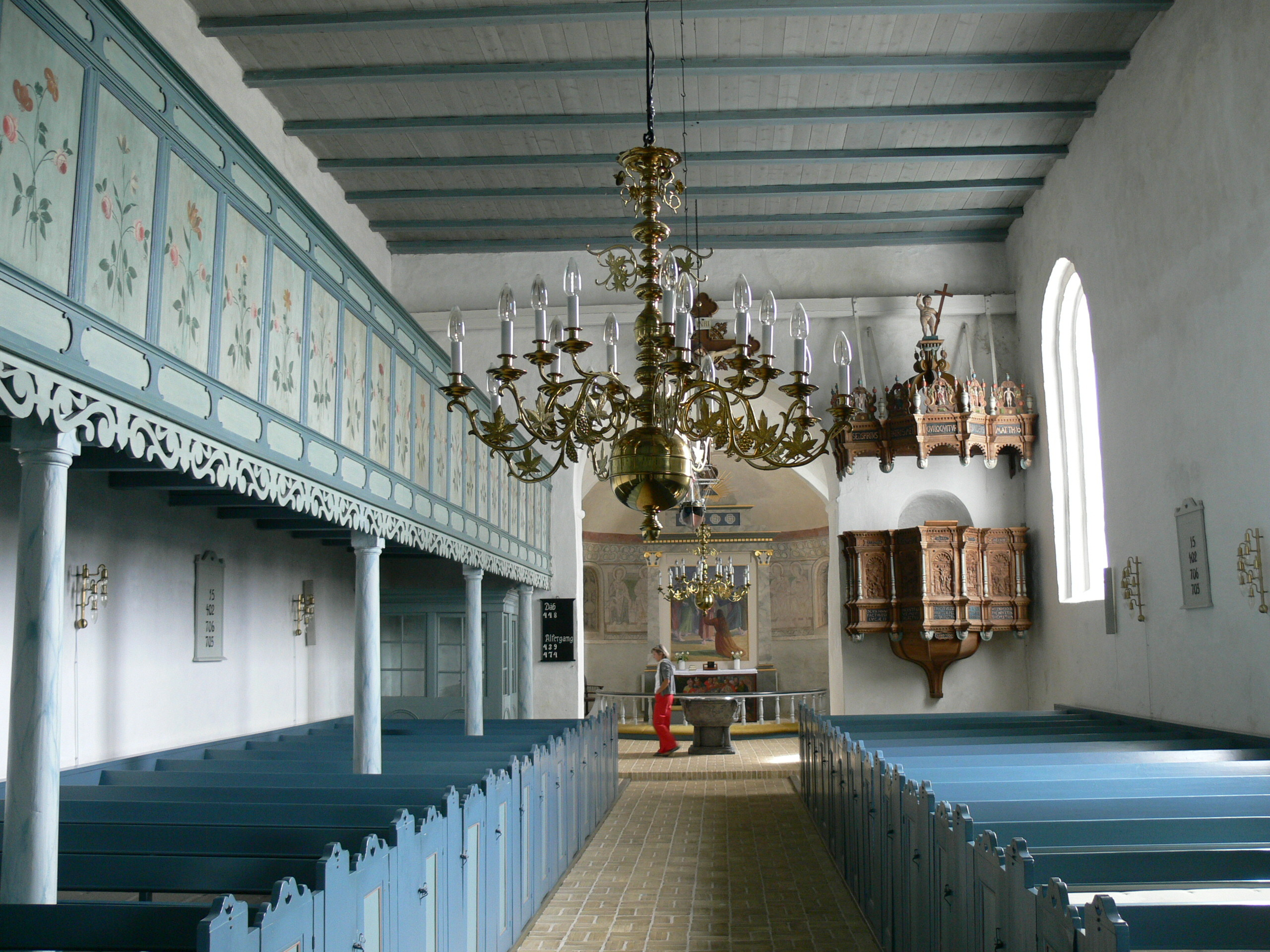 Ballum church. Interior